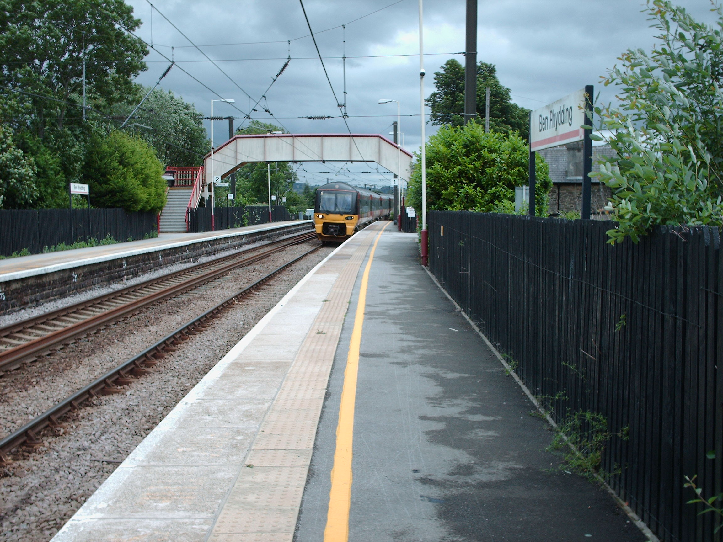 Ben Rhydding railway station, West Yorkshire, England. EMU 333013 arives at platform 1. West Yorkshire Metro livery.